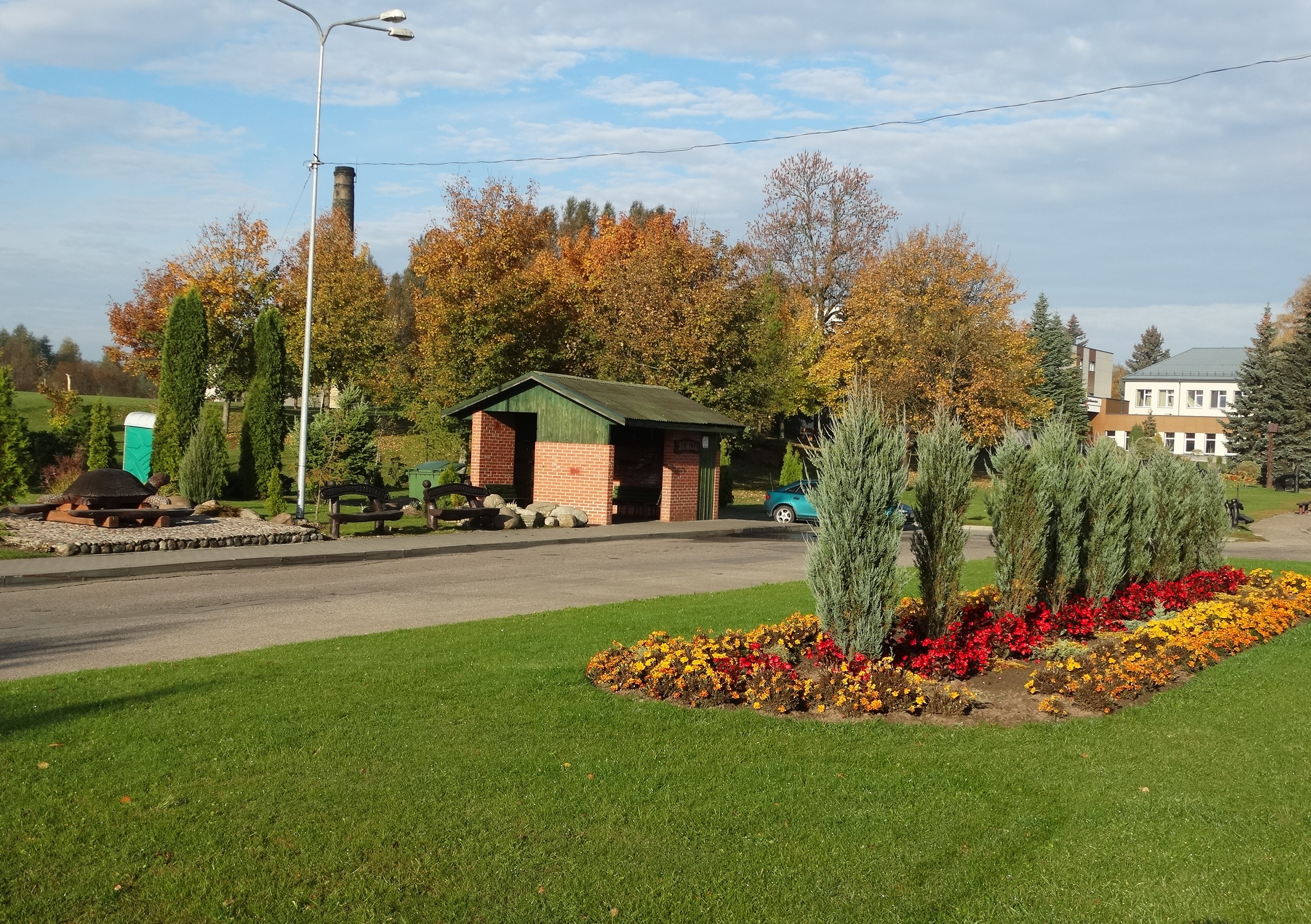 Bus stop, Seirijai, Lithuania